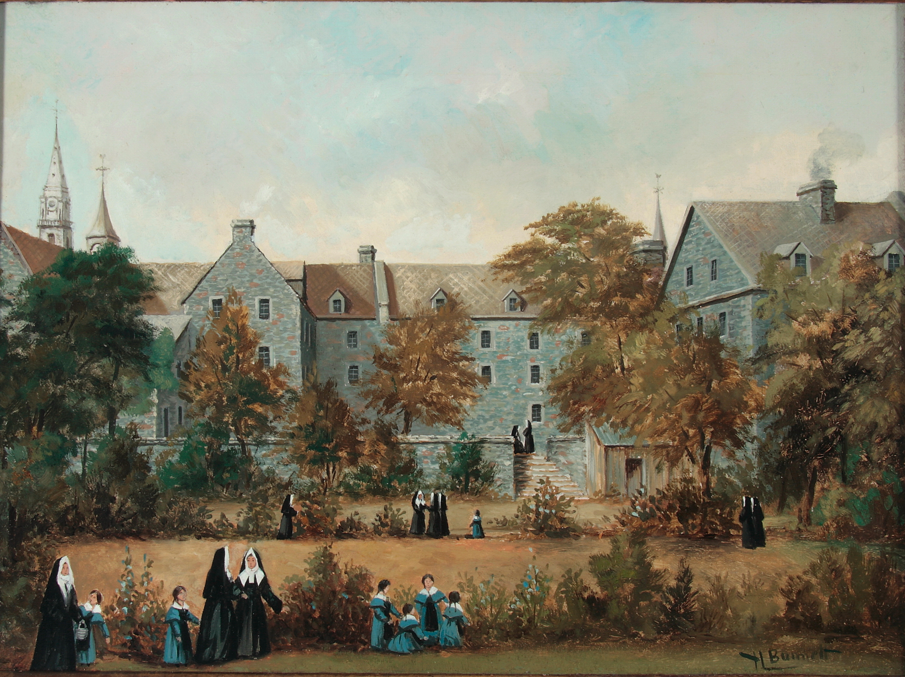 Painting, Congregation of Notre Dame, Montreal, 1885-1890, Henry Richard S. Bunnett, 28.4 x 38 cm